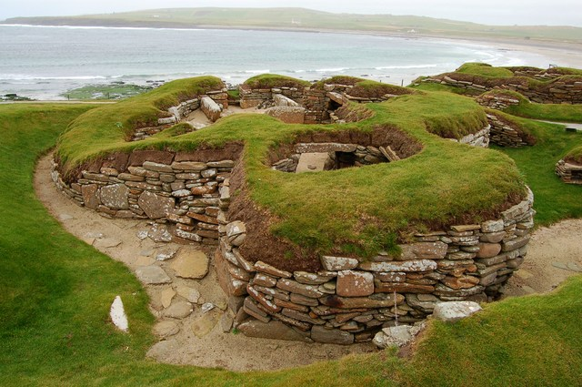 Skara Brae Some of the remaining neolithic dwellings at Skara Brae. These things are old. Built over 5,000 years ago, they are older than the pyramids in Egypt - and way older than Stonehenge. They were revealed when a big storm blew the turf and sand off the site in 1850.